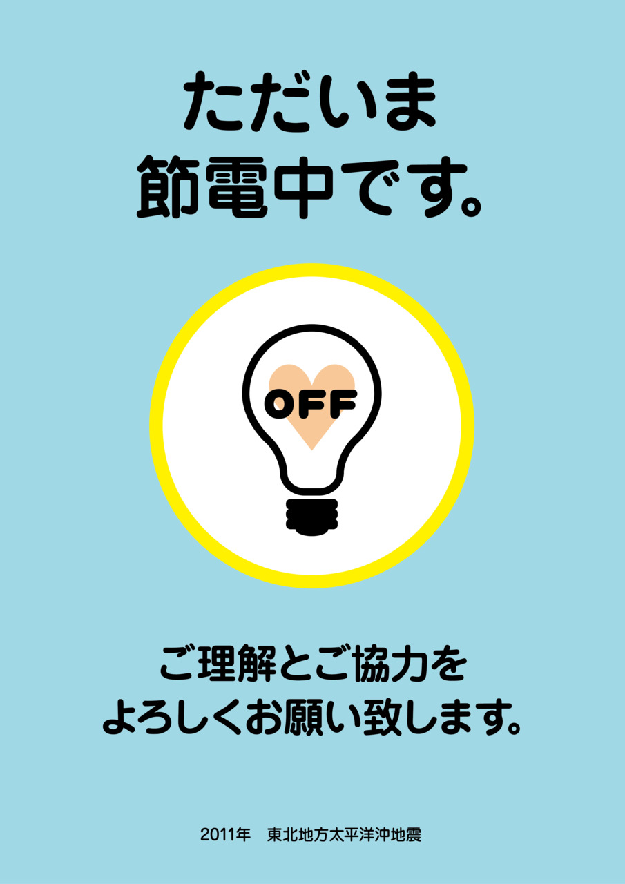 2011 Japanese power saving poster